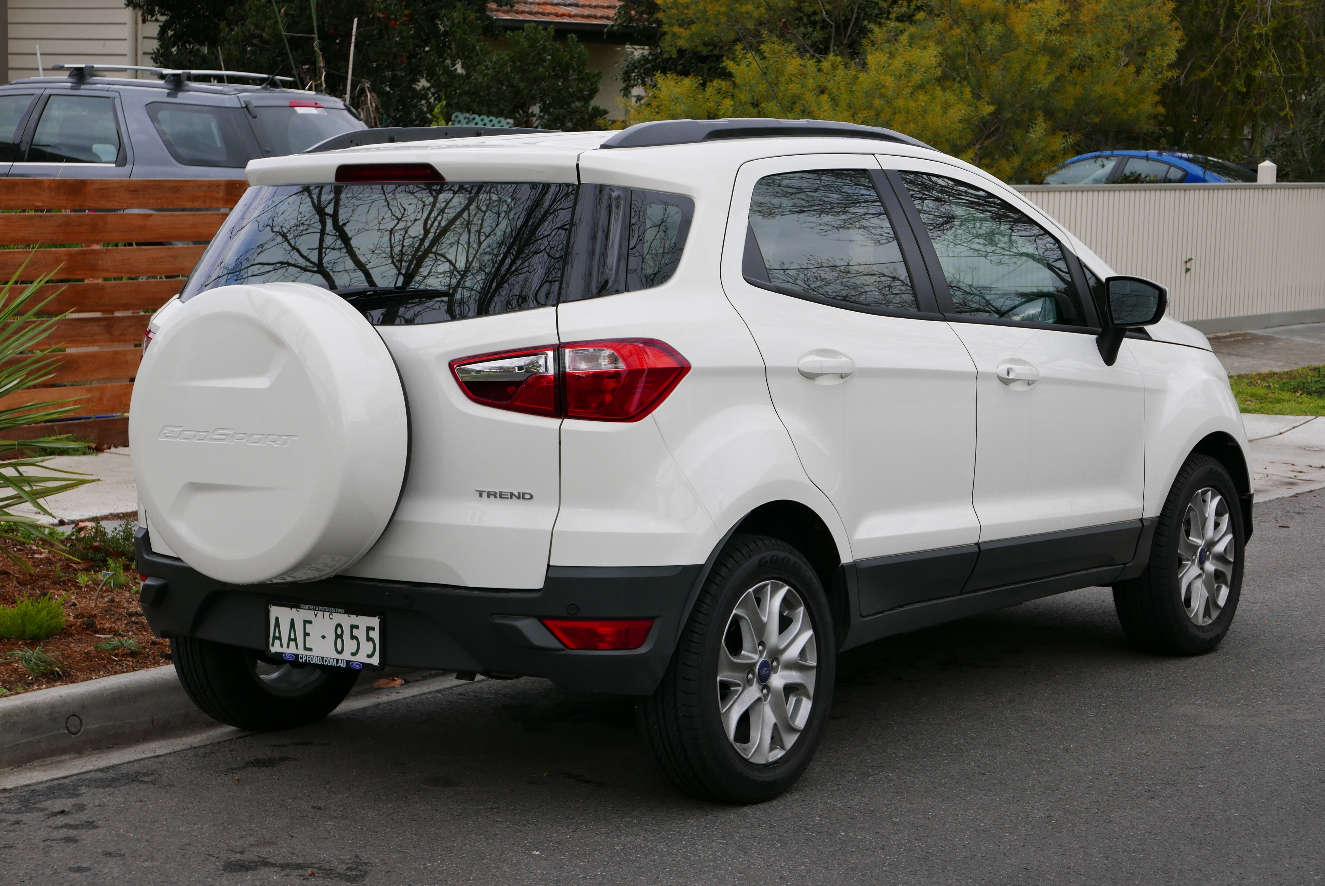 2015 Ford EcoSport (BK) Trend wagon. Photographed in Alphington, Victoria, Australia. Vehicle registration enquiry results Jurisdiction Victoria Registration AAE855 Chassis code MAJBXXMRKBFD18709 Engine code FD18709 Compliance date 2015-05 Year of manufacture 2015